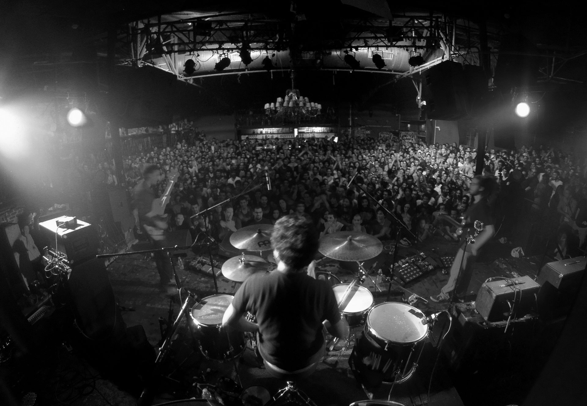 TATRAN Live - August 2015